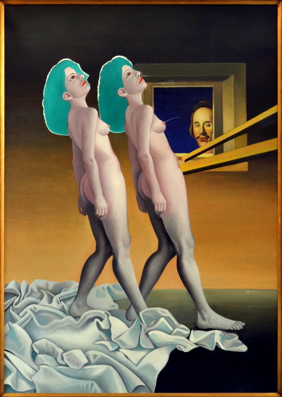 Petra Oriešková, Tear, oil on canvas, 2009